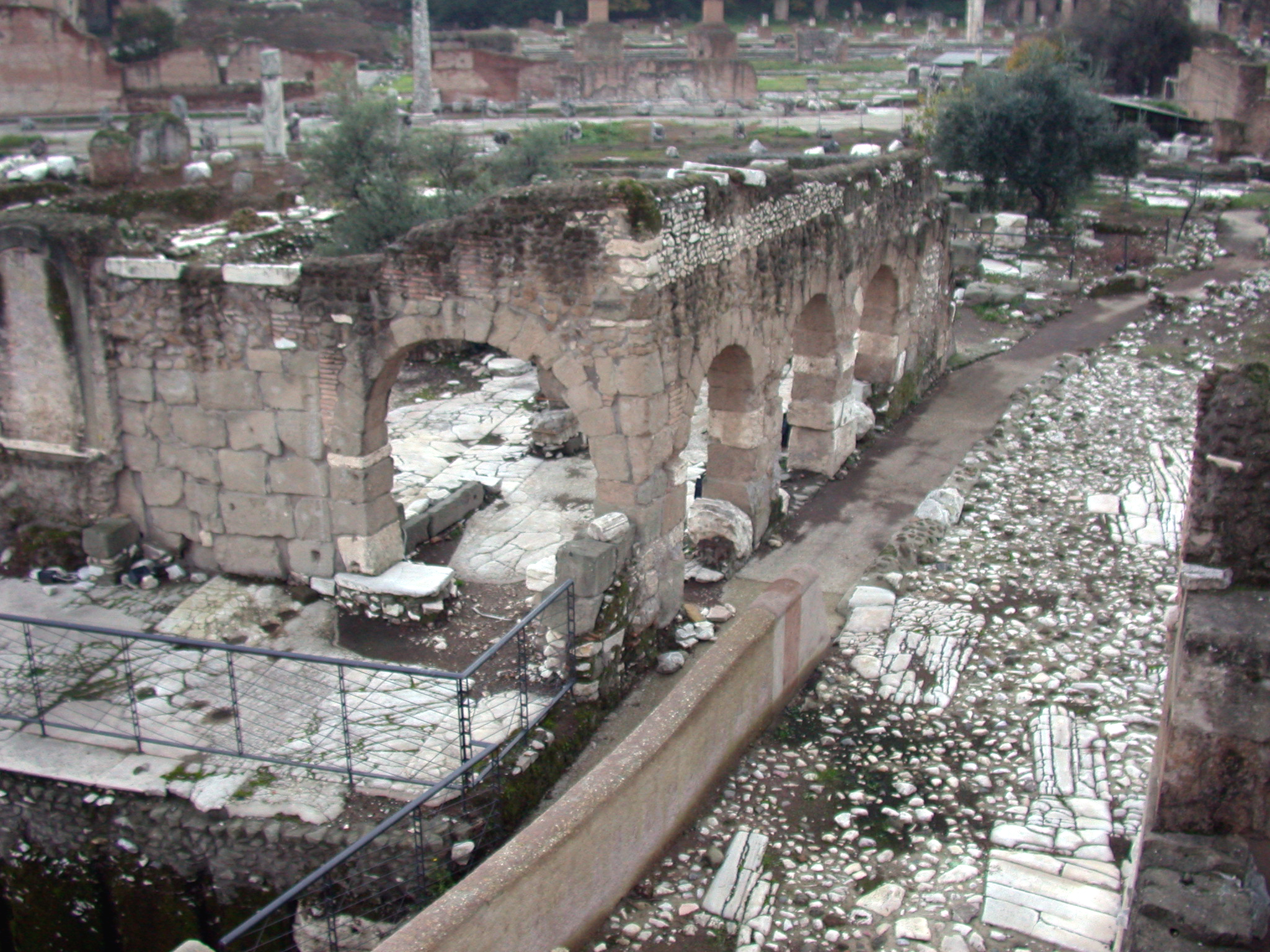 Rome, Nerva Forum, carolingian house, portico and street. Personal photo (november 2005) by MM in it.wiki